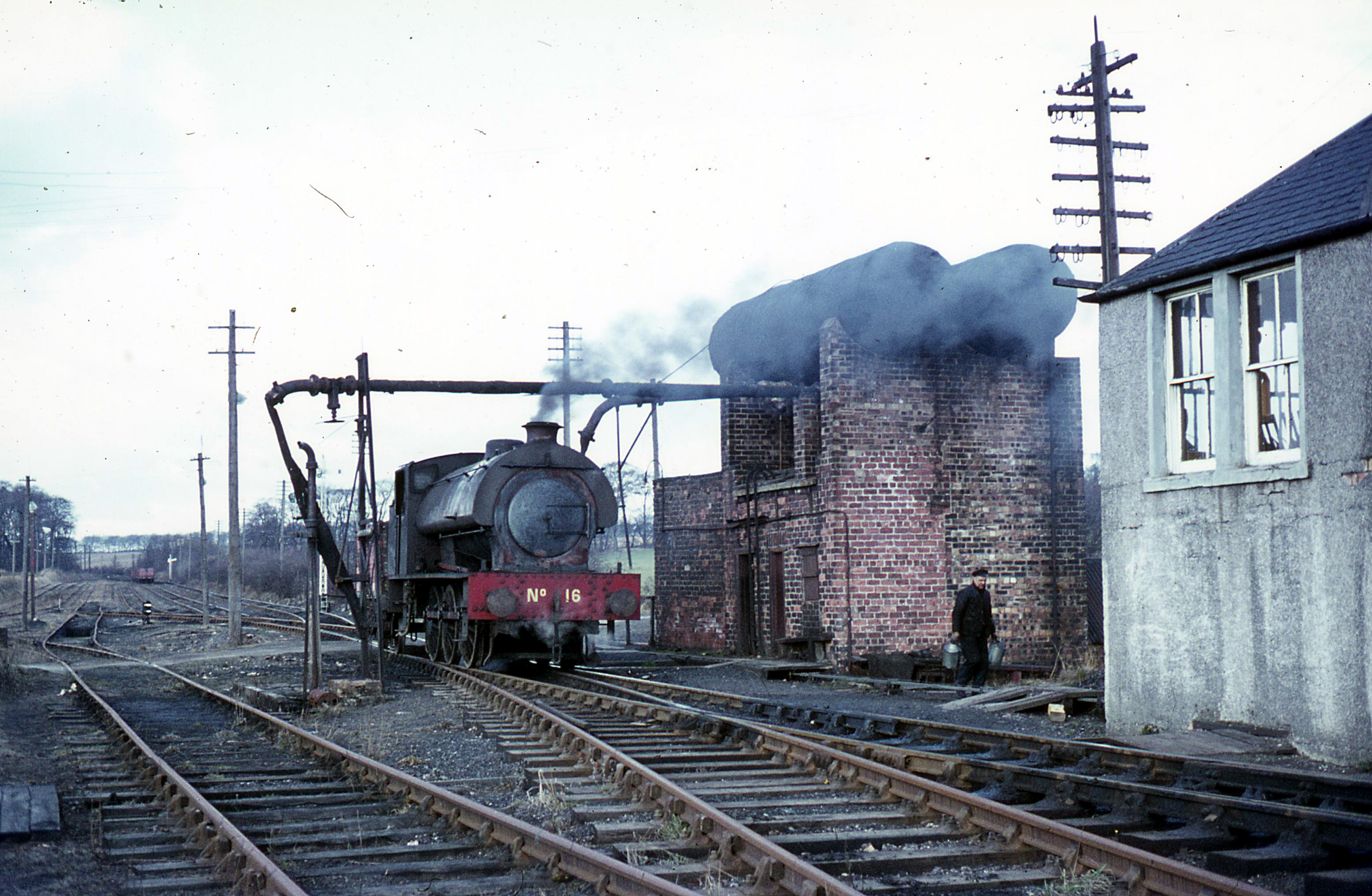 Saddle tank locomotive takes on water at East Wemyss, Fife, Scotland on 19th March 1970